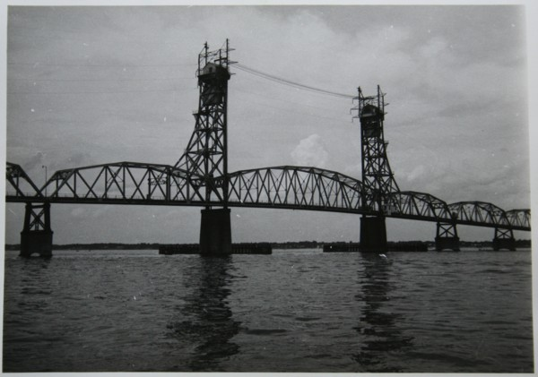 The original James River Bridge, circa 1960. (image scanned 9/27/2009 from undated photo). The bridge has been demolished and replaced.